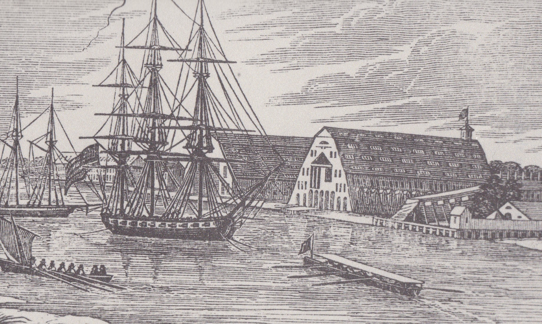 Sketch Shows Gosport Navy Yard circa 1840 with vessels and Ship houses.